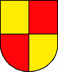 Blazon of Braunau, Canton of Thurgau, SwitzerlandEsperanto: Blazono de Braunau, Kantono Turgovio, Svislando